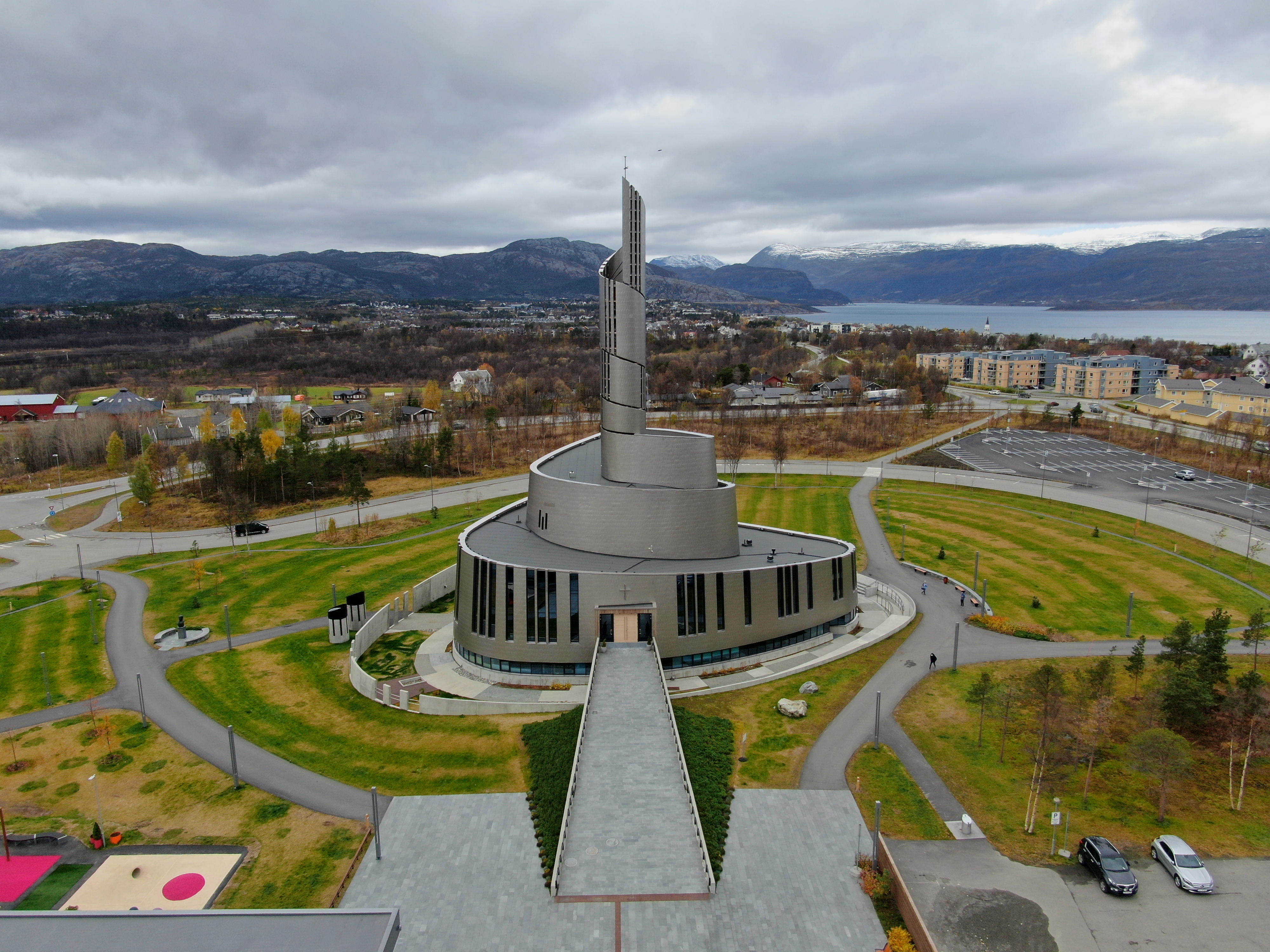 Picture of the largest church in the norwegian town Alta. Capture by a drone in October 2018.